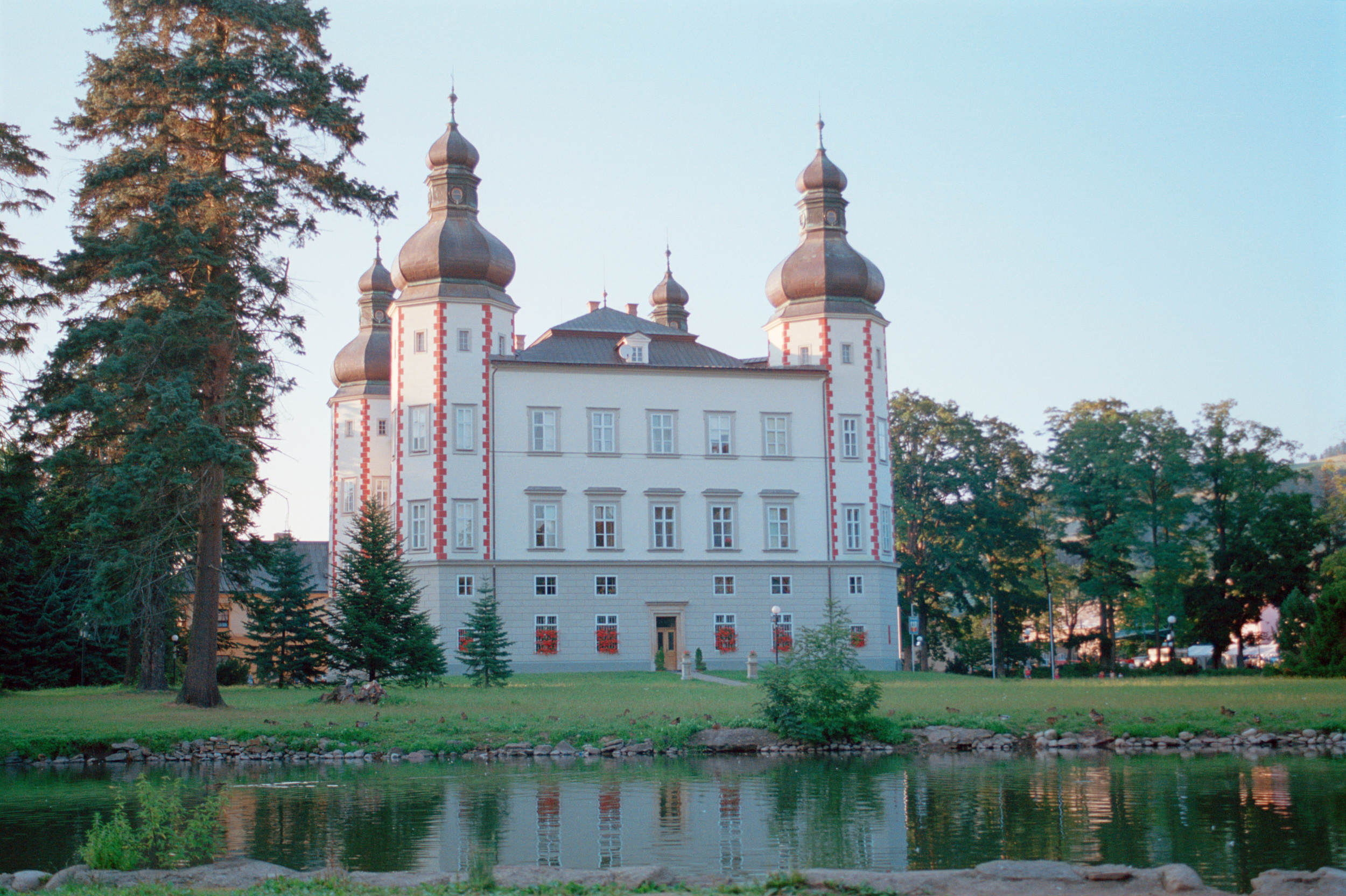 Vrchlabí - city in czech republic in Karkonosze self taken picture, taken in summer 1998 castle of the city